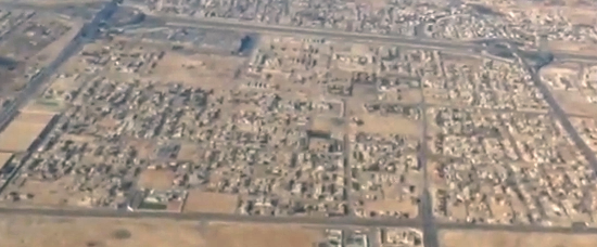 Aerial view of Al Daayen municipality and Umm Salal Mohammed, Qatar.